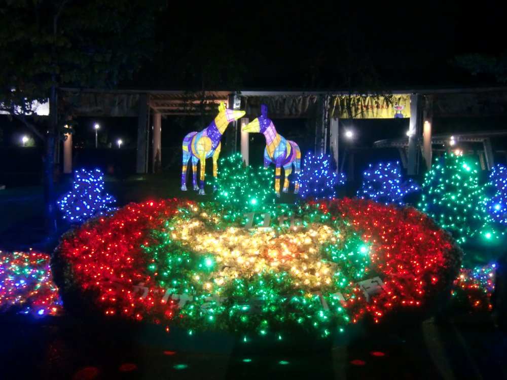 Night Zoorasia (Yokohama Zoological Gardens, Japan)